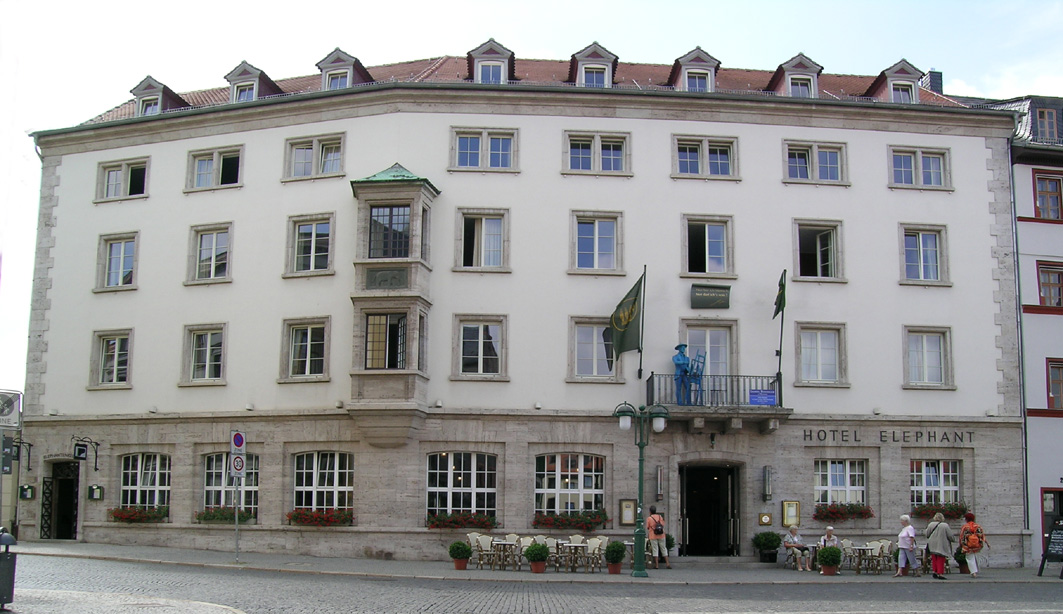 Hotel Elephant, Weimar, Germany.